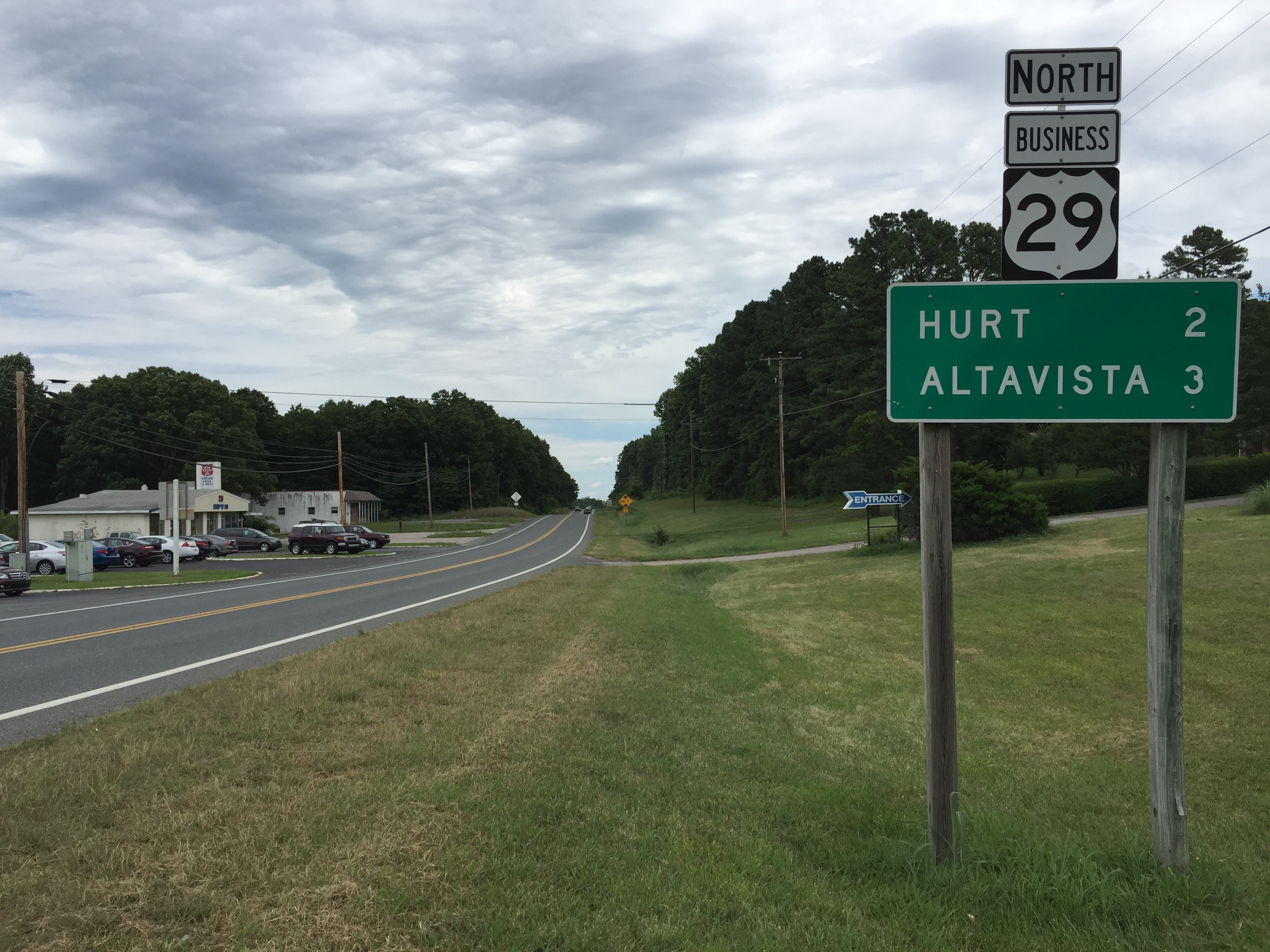 View north along U.S. Route 29 Business (Main Street) at Roark Mill Road in Motley, Pittsylvania County, Virginia